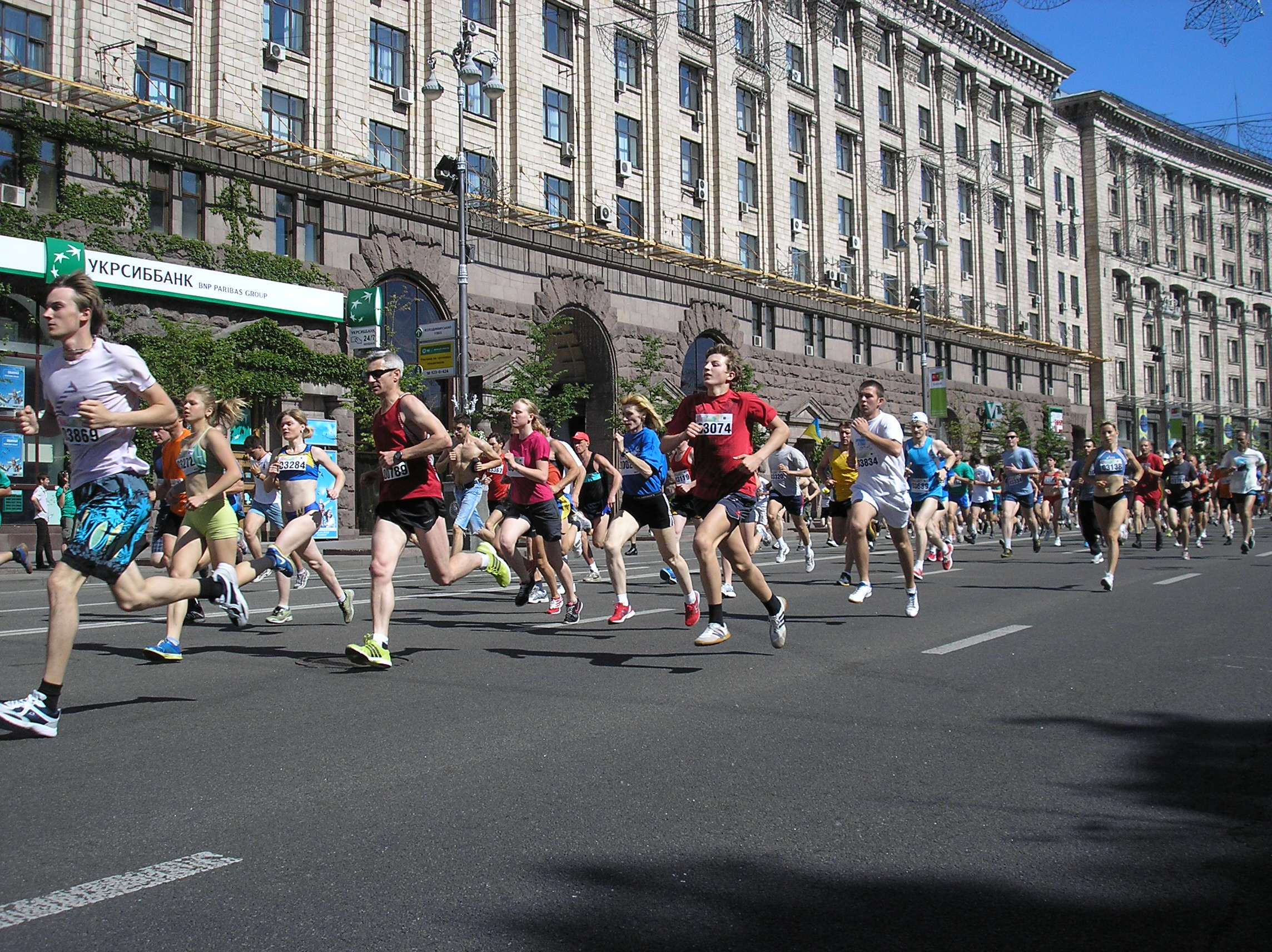 "Running under chestnuts", in the Day of Kyiv, 29-05-2011.